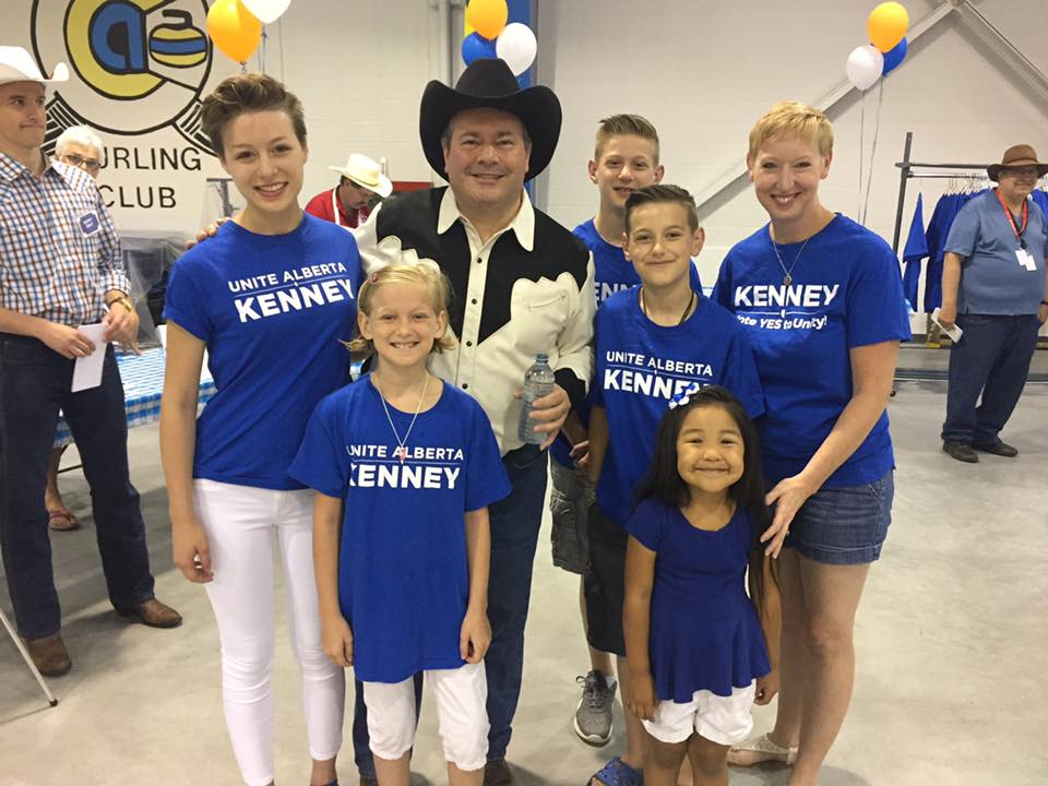 Watsons supporting Jason Kenney during leadership nomination